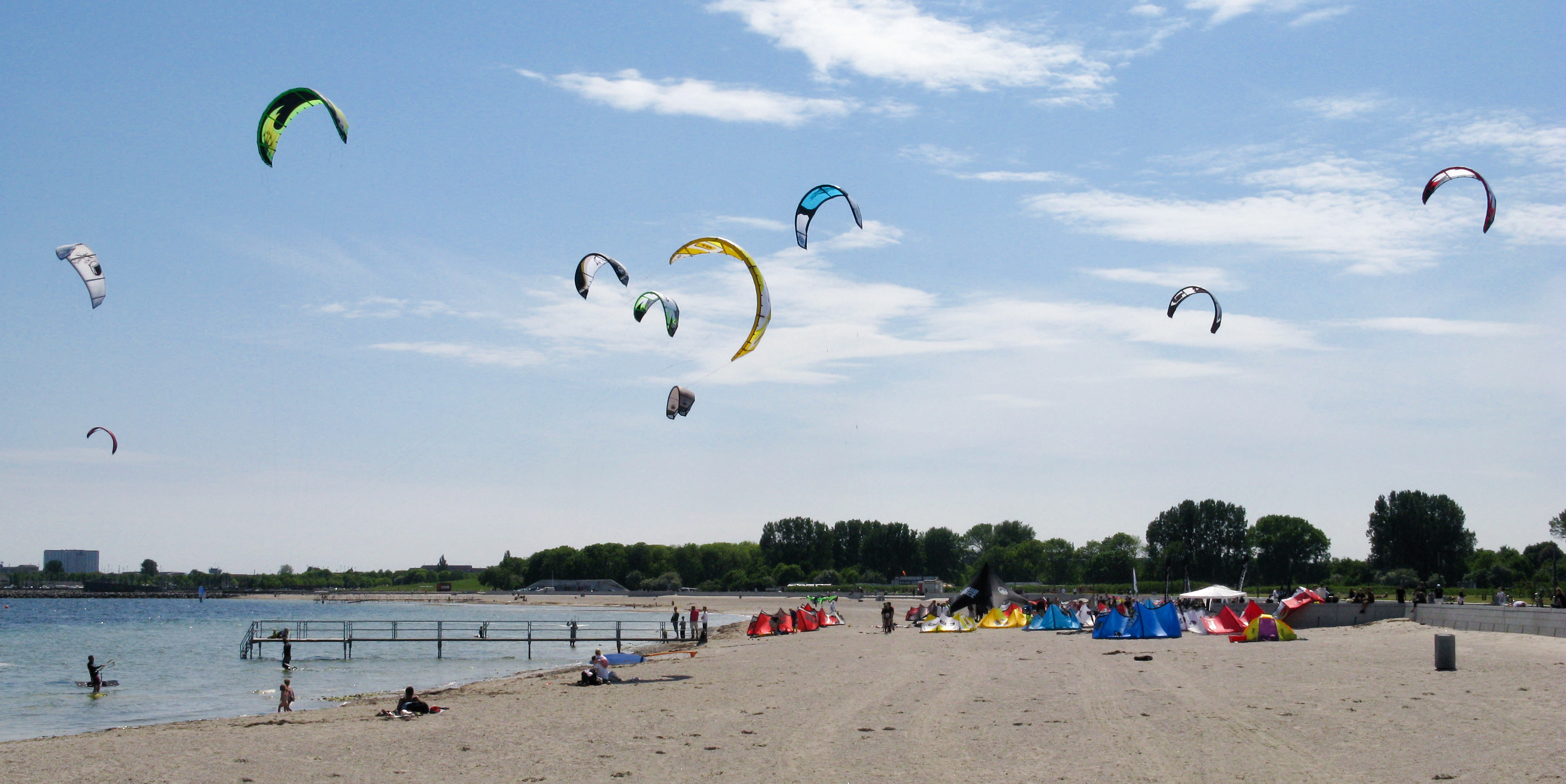 Kite surfers in Amager Beach Park in Copenhagen, Denmark